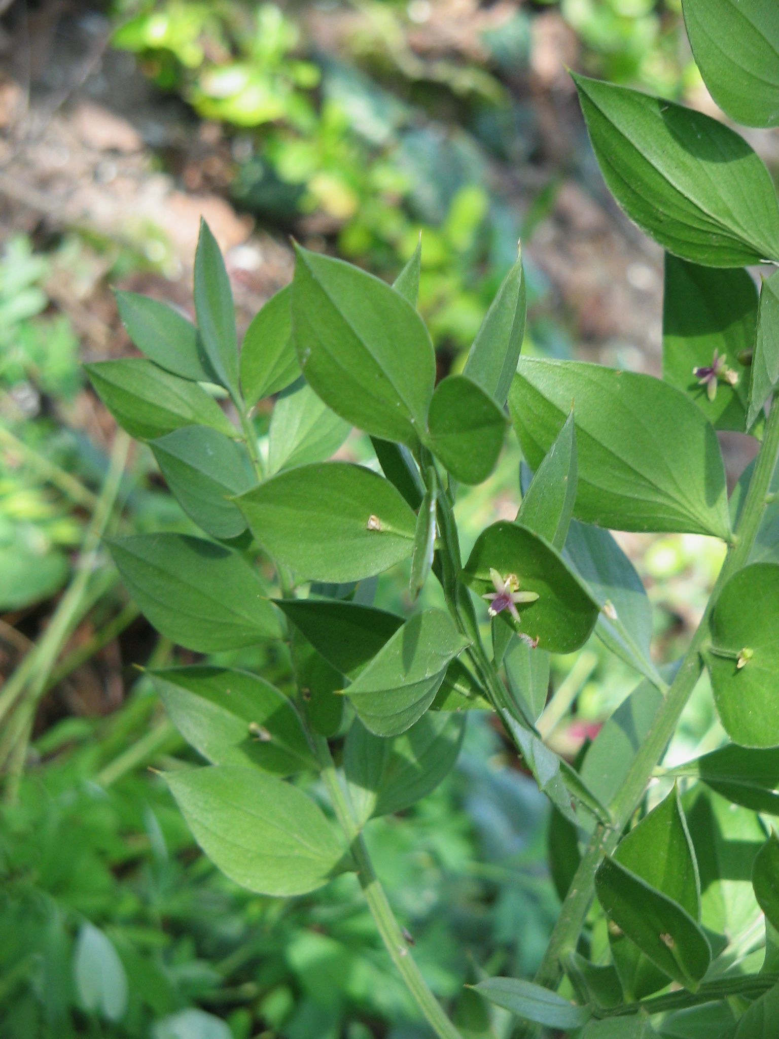 Ruscus aculeatus flowering twig